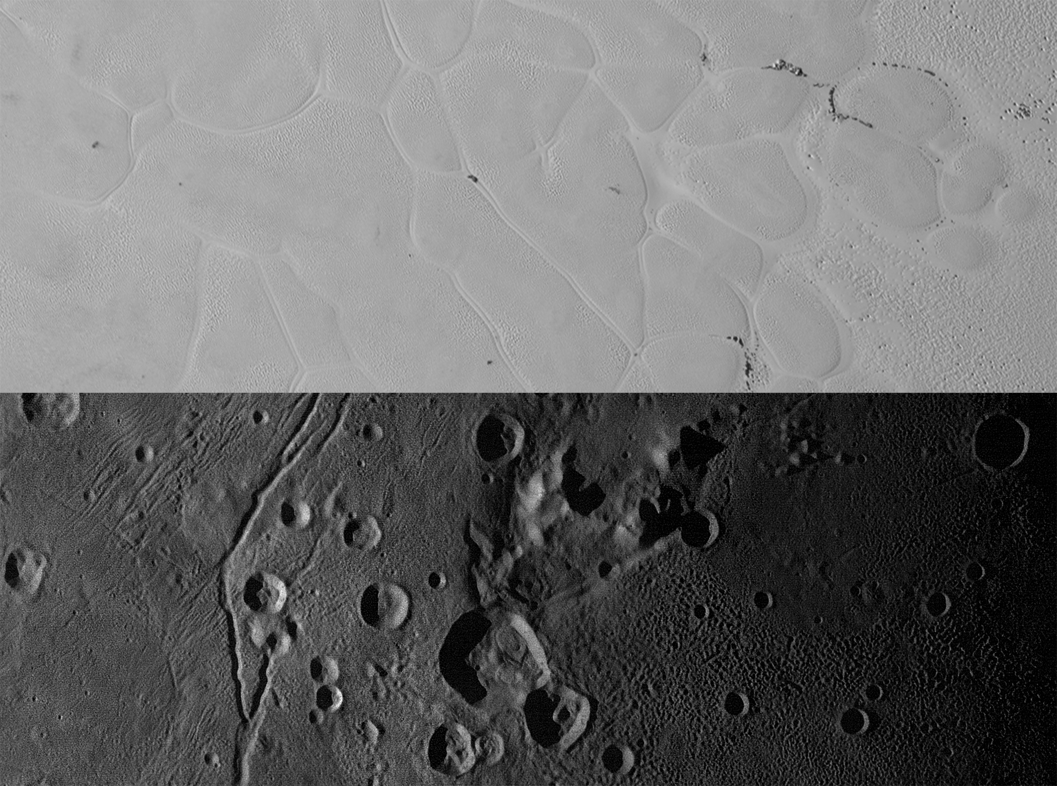 New Horizons views of the informally named Sputnik Planum on Pluto (top) and the informally named Vulcan Planum on Charon (bottom). Both scale bars measure 20 miles (32 kilometers) long; illumination is from the left in both instances. The Sputnik Planum view is centered at 11°N, 180°E, and covers the bright, icy, geologically cellular plains. Here, the cells are defined by a network of interconnected troughs that crisscross these nitrogen-ice plains. At right, in the upper image, the cellular plains yield to pitted plains of southern Sputnik Planum. This observation was obtained by the Ralph/Multispectral Visible Imaging Camera (MVIC) at a resolution of 1,050 feet (320 meters) per pixel. The Vulcan Planum view in the bottom panel is centered at 4°S, 4°E, and includes the "moated mountain" Clarke Mons just above the center of the image. As well as featuring impact craters and sinuous troughs, the water ice-rich plains display a range of surface textures, from smooth and grooved at left, to pitted and hummocky at right. This observation was obtained by the Long Range Reconnaissance Imager (LORRI) at a resolution of 525 feet (160 meters) per pixel.